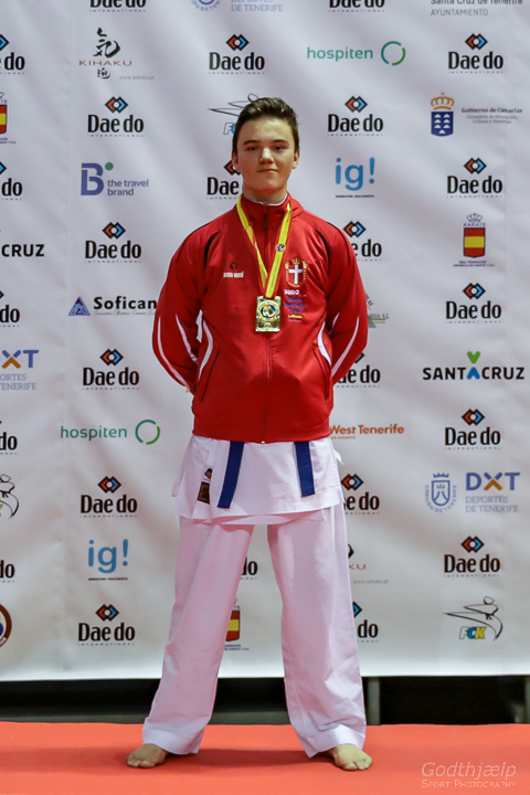 World Karate Champion 2017 - Cadet +70kg